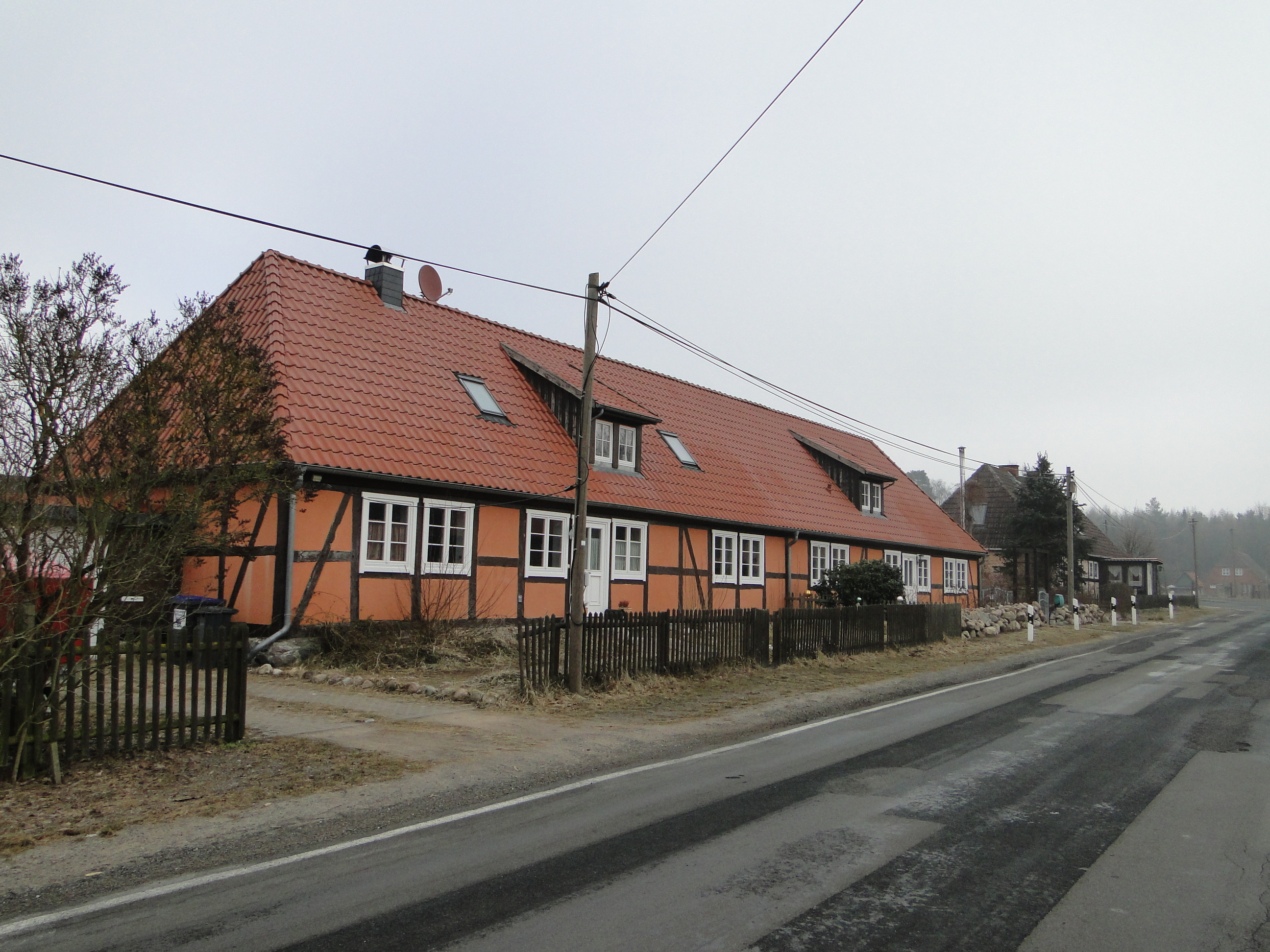 Buildings in Alt Schwinz, district Parchim, Mecklenburg-Vorpommern, Germany